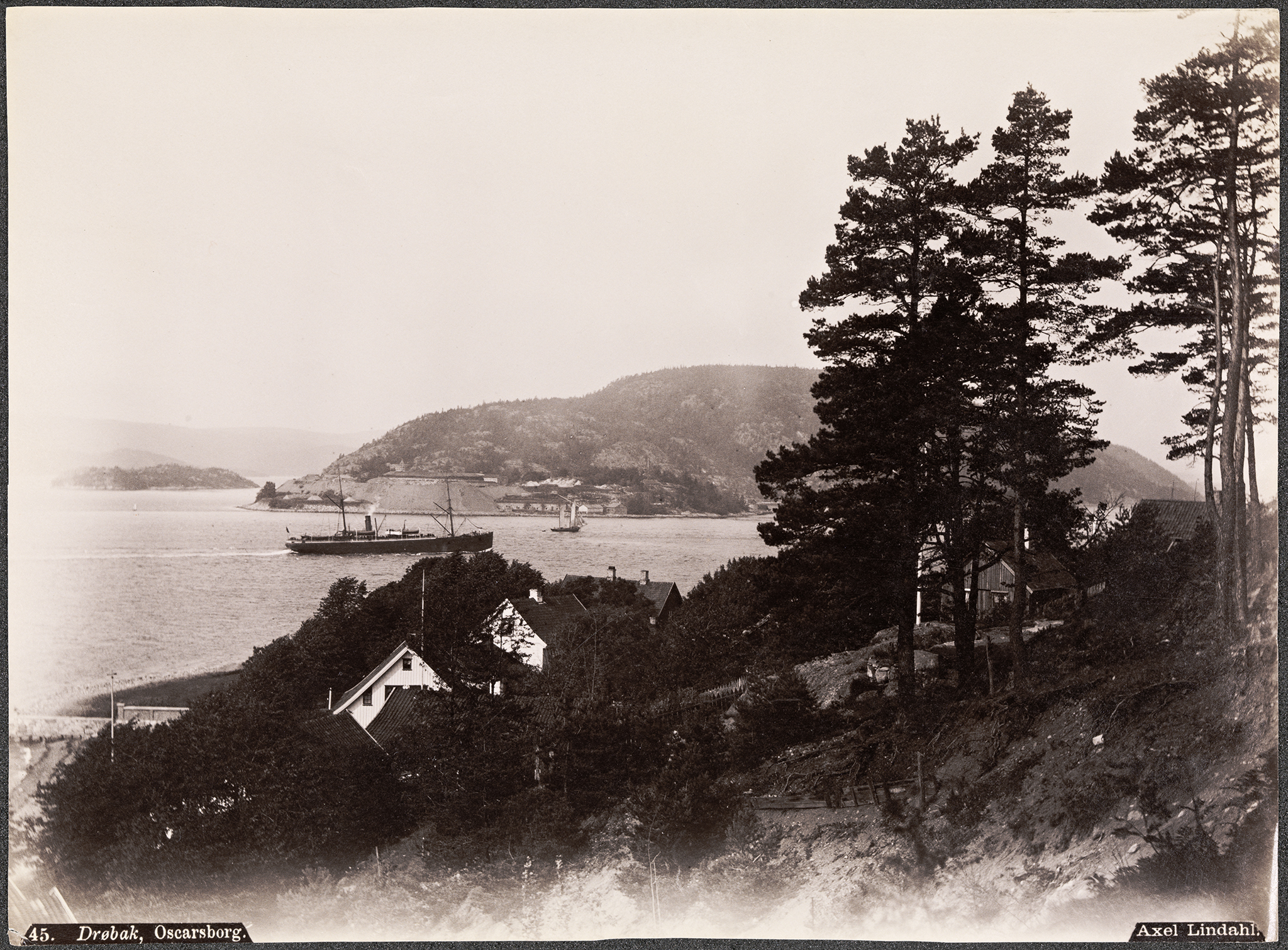 Tittel / Title: 45. Drøbak, Oscarsborg Dato / Date: ca 1880-1890 Fotograf / Photographer: Axel Lindahl (1841-1906) Sted / Place: Akershus, Frogn, Drøbak, Oscarsborg Eier / Owner Institution: Nasjonalbiblioteket / National Library of Norway Lenke / Link: Bildesignatur / Image Number: bldsa_AL0045